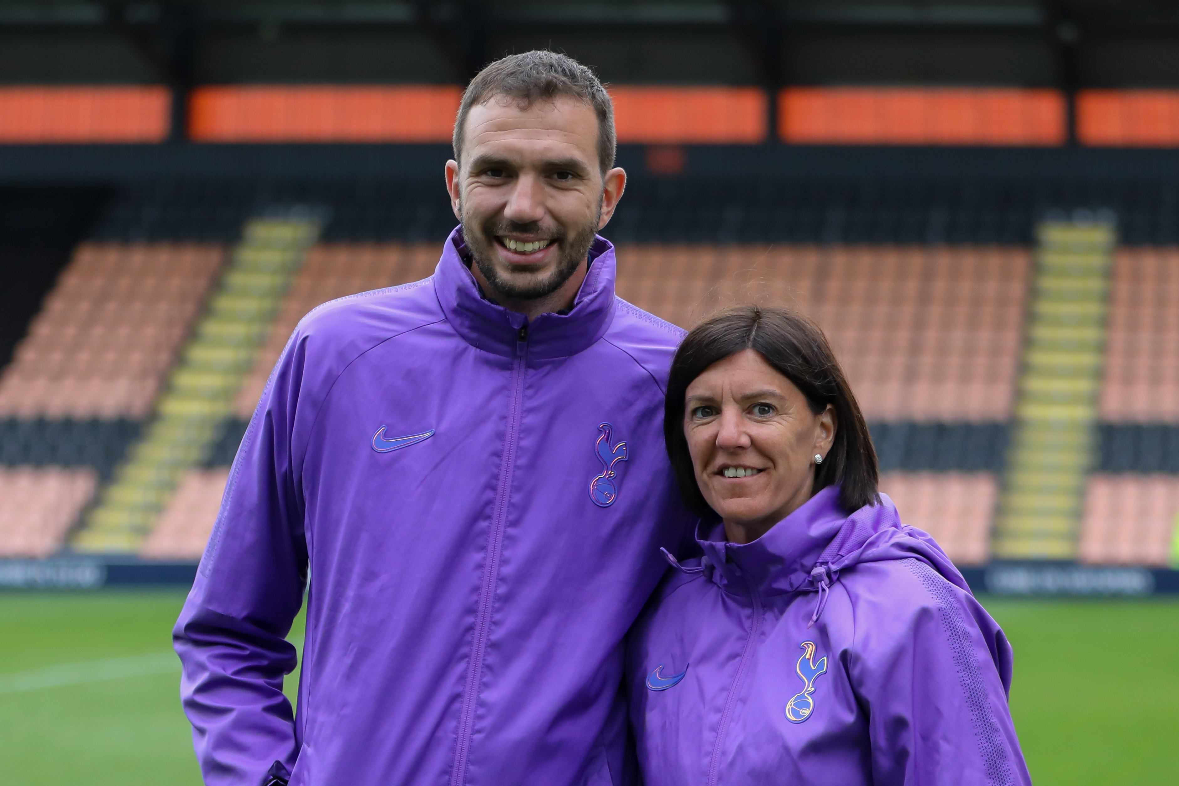 2019–20 FA Continental Tyres Cup: Tottenham Hotspur FC Women v Reading FC Women, 22 September 2019 – Head Coaches Juan Amoros (L) & Karen Hills (R).